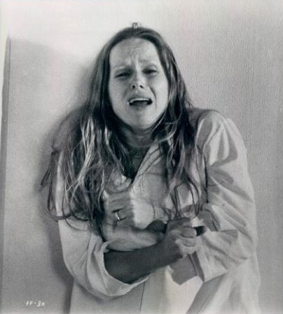 Liv Ullmann in Face to Face.